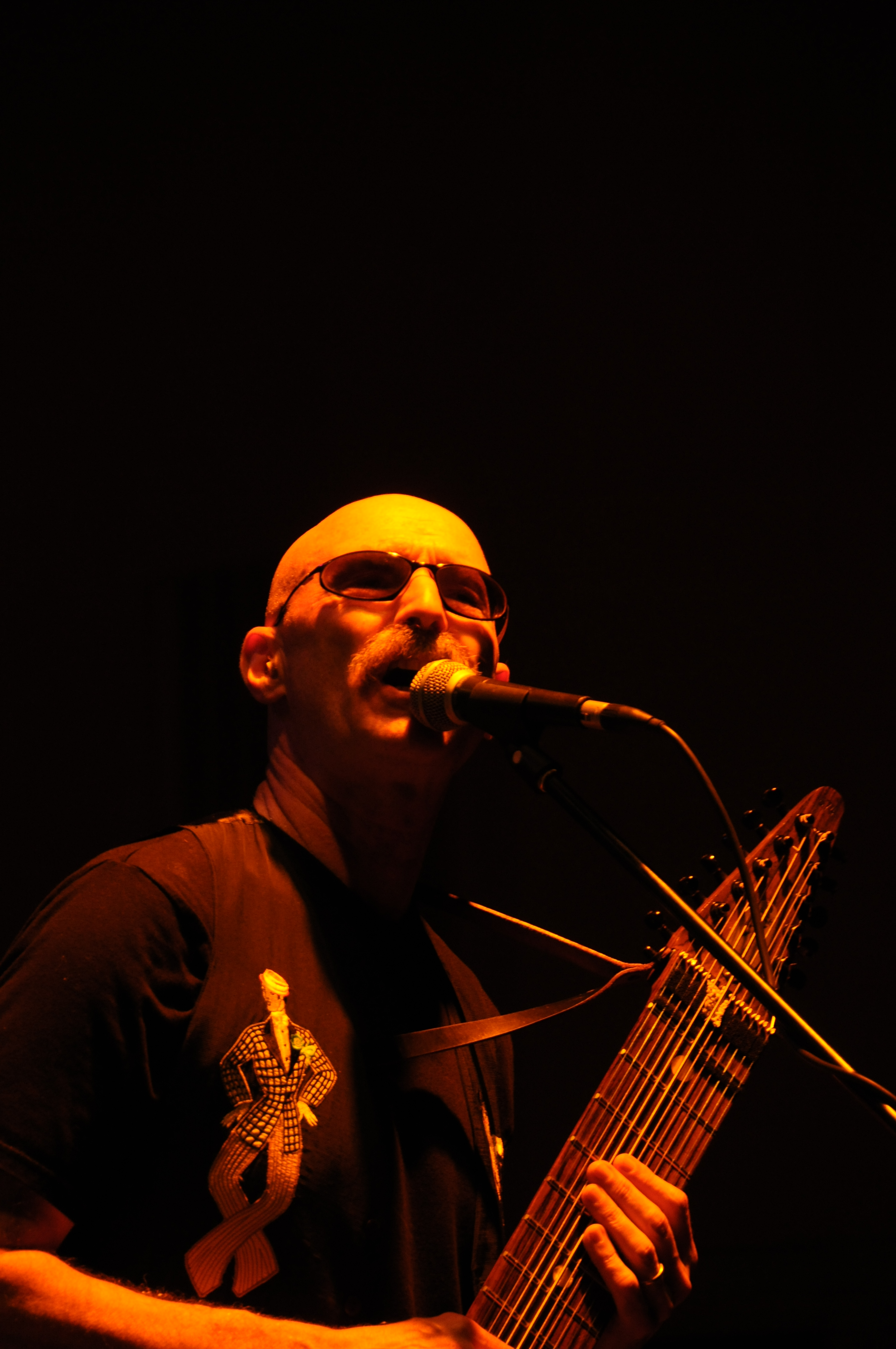 Tony Levin